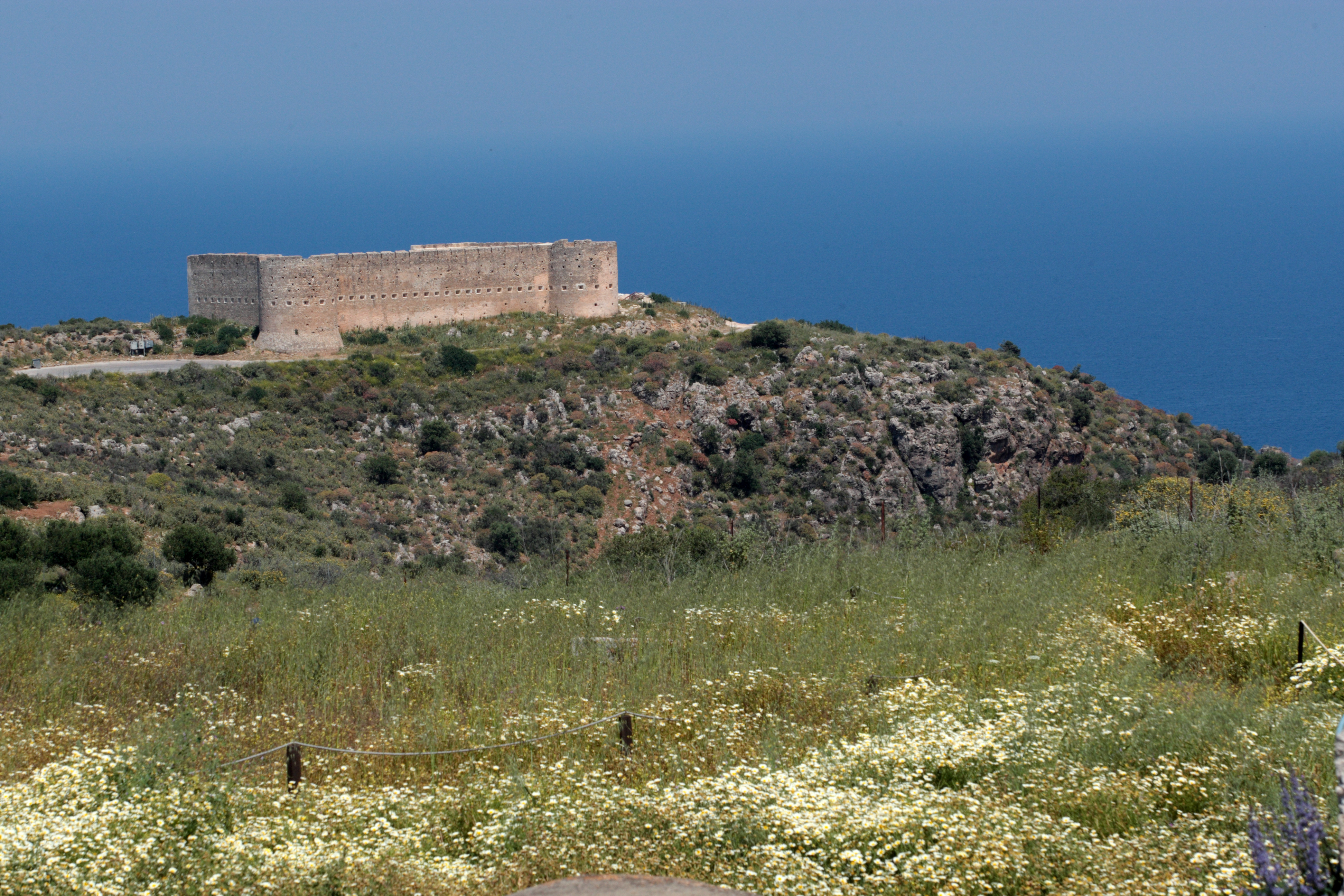 The Turkish fort of Aptera, Crete